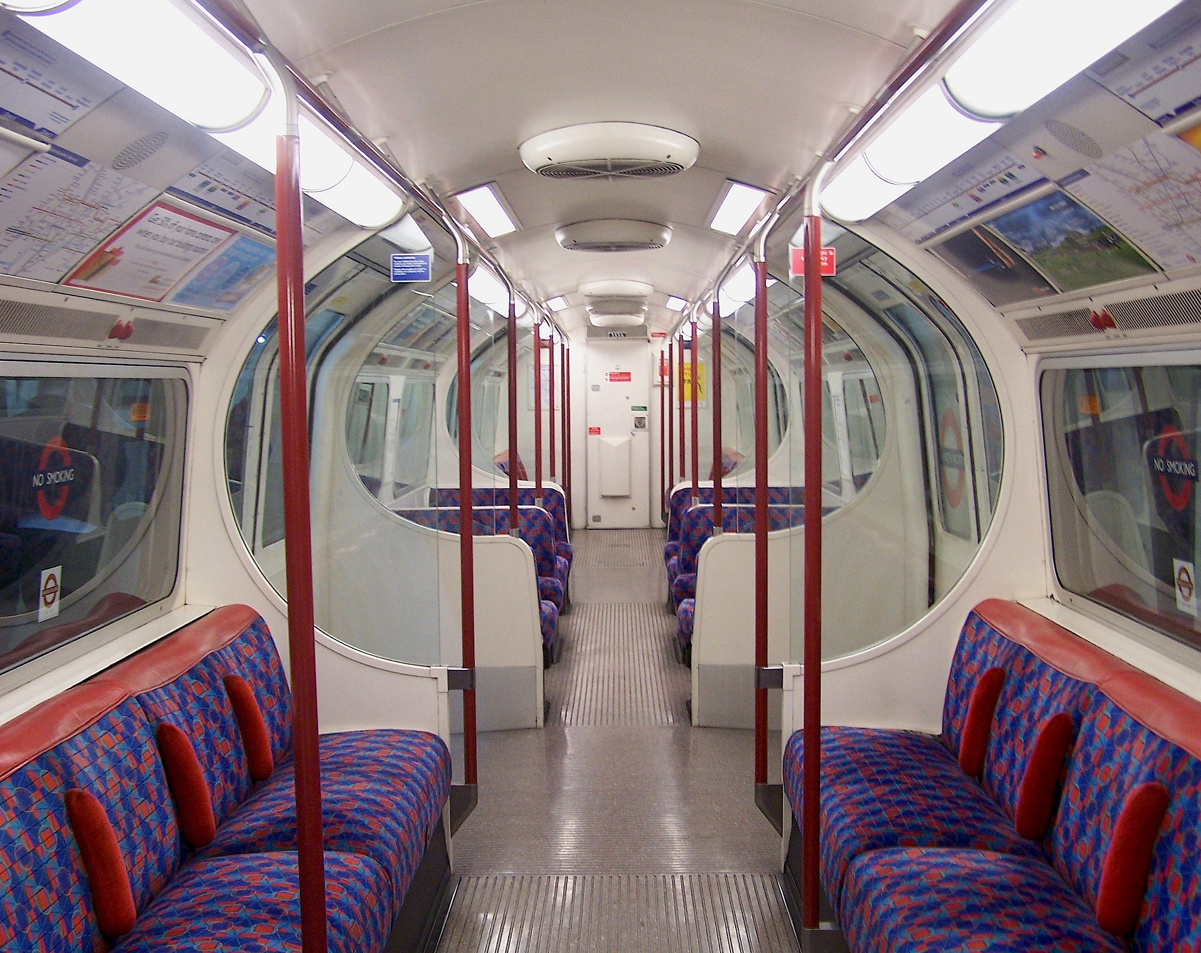 The refurbished interior of a 72 Tube Stock Driving Motor vehicle